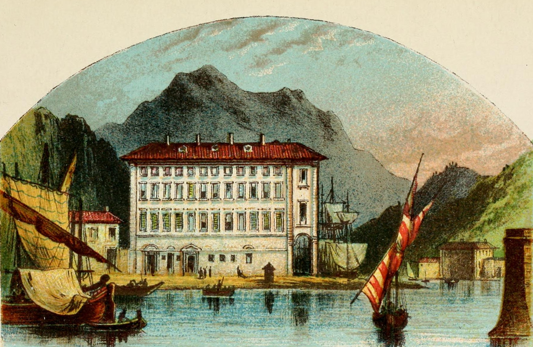 Life of Giuseppe Garibaldi, Italian hero and patriot (1888) Author: Blackett, Howard Subject: Garibaldi, Giuseppe Publisher: London, Scott Possible copyright status: NOT_IN_COPYRIGHT Language: English Call number: AEK-8423 Digitizing sponsor: MSN Book contributor: Robarts - University of Toronto Collection: robarts; toronto Scanfactors: 34 Full catalog record: MARCXML